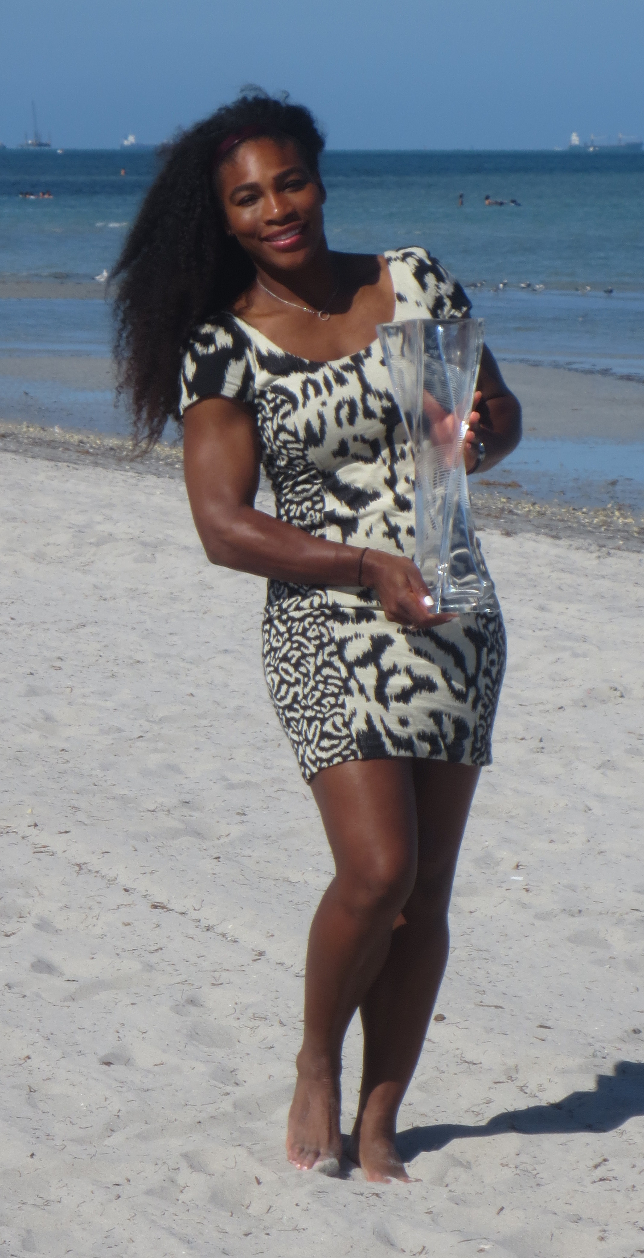 Serena Williams on the Crandon Beach with the 2015 Miami Open trophy.